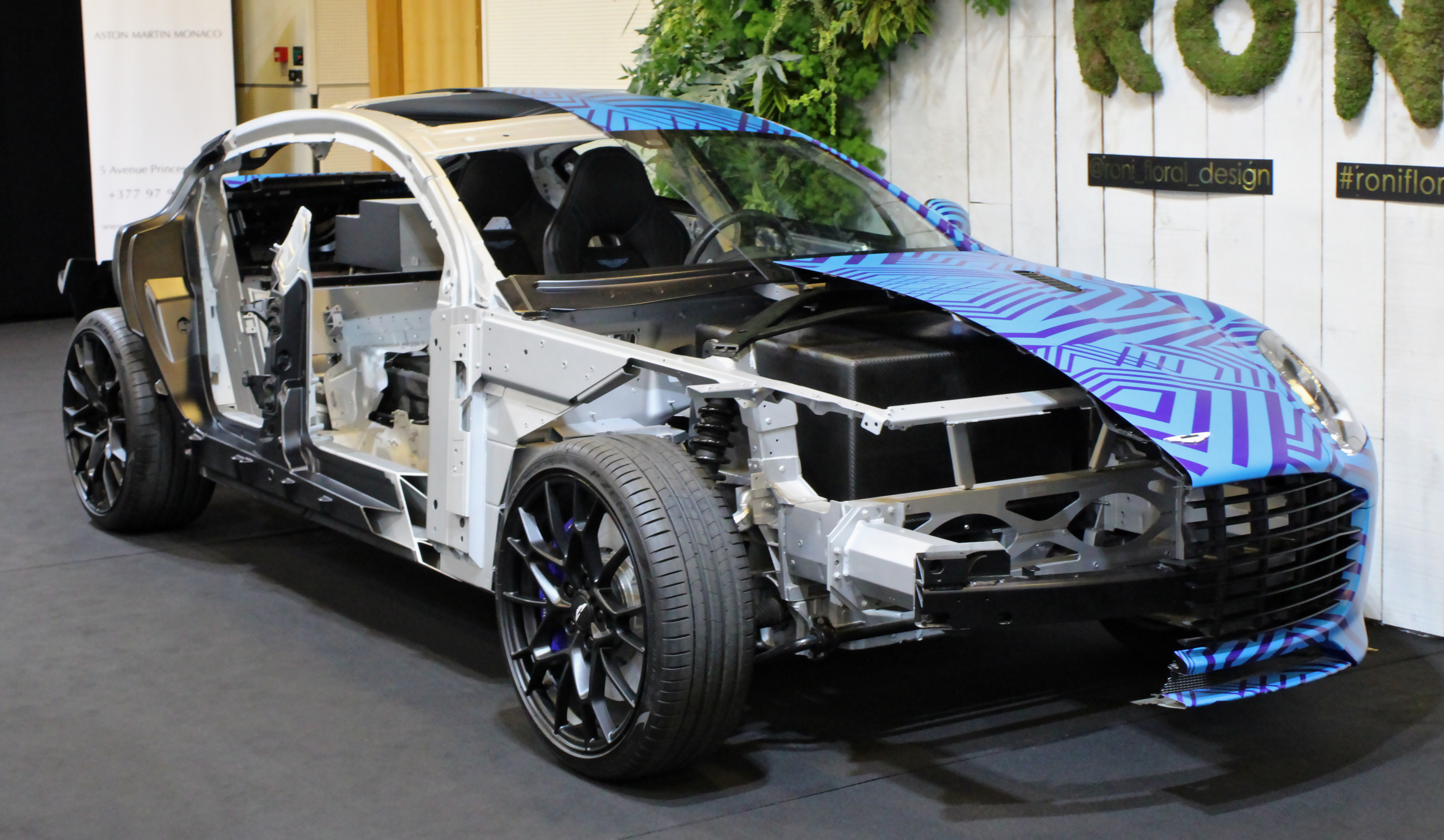 Aston Martin Rapide E at Top Marques 2019